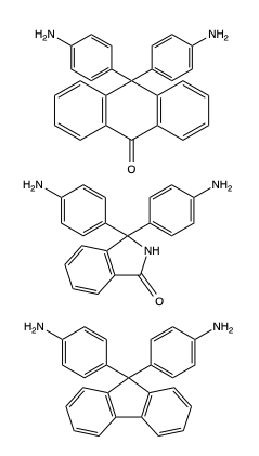 polyamide cardo